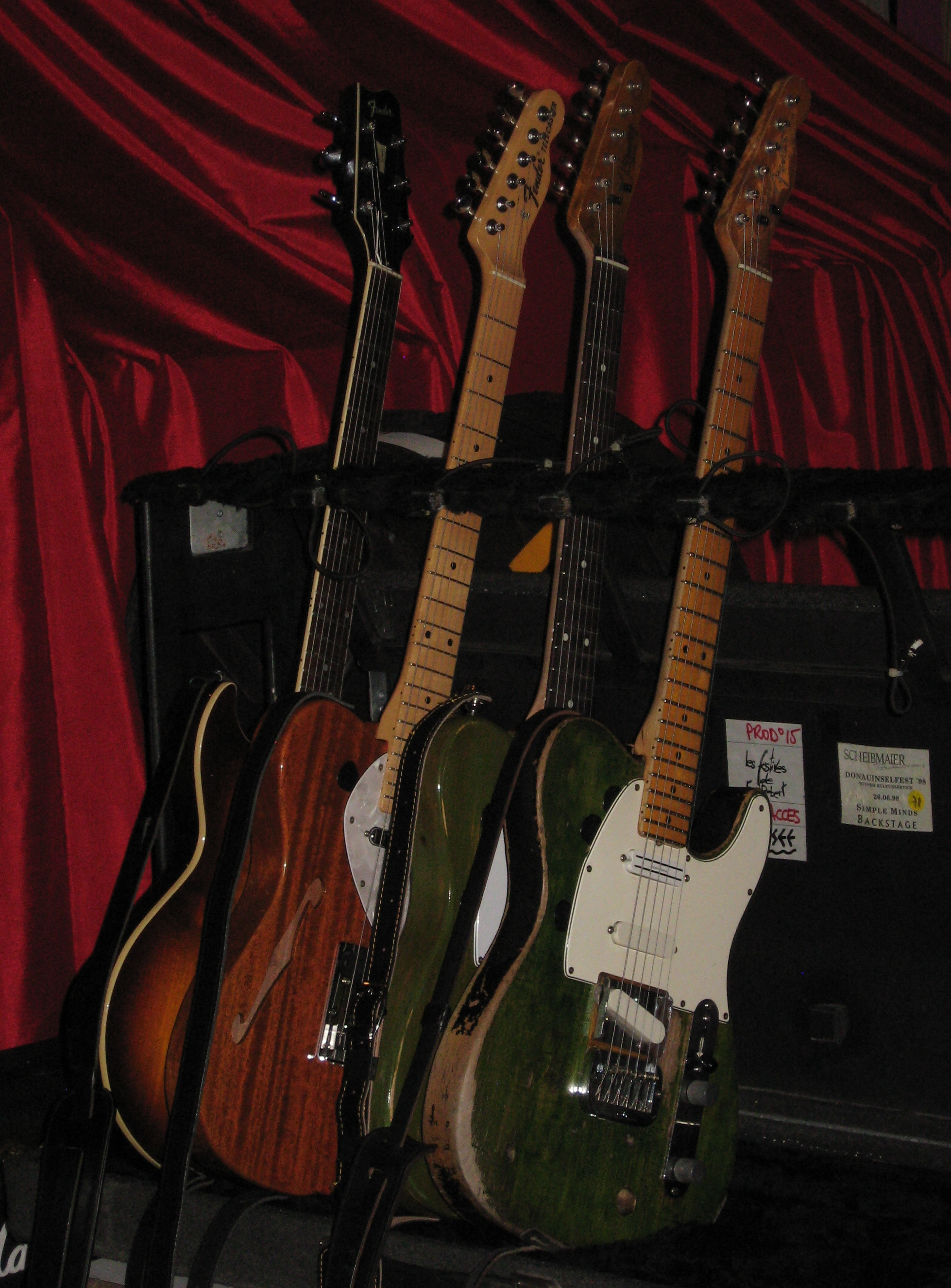 Francis Rossi's Guitar Rack, The Gree Club, Cardiff, 2010-05-18